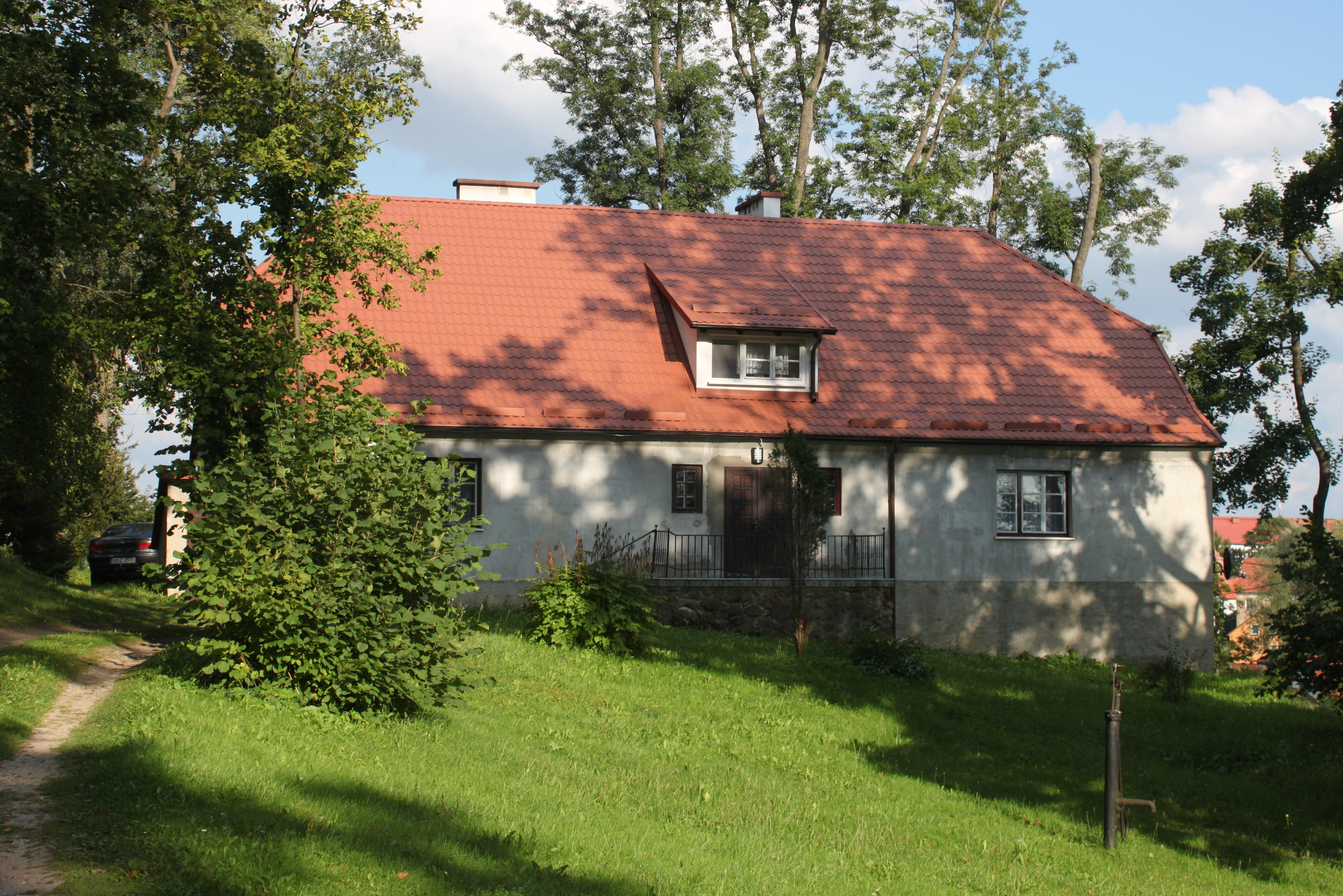 Lutheran church in Dźwierzuty and cemetery nearby.